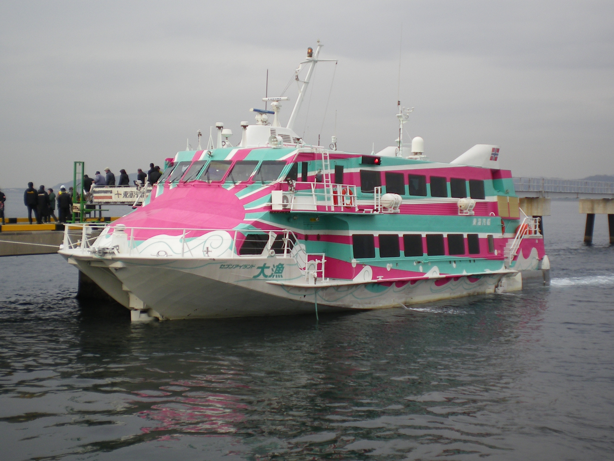 Seven Island Tairyo operated by Tokai Kisen at the Port of Tateyama in Chiba Prefecture, Japan